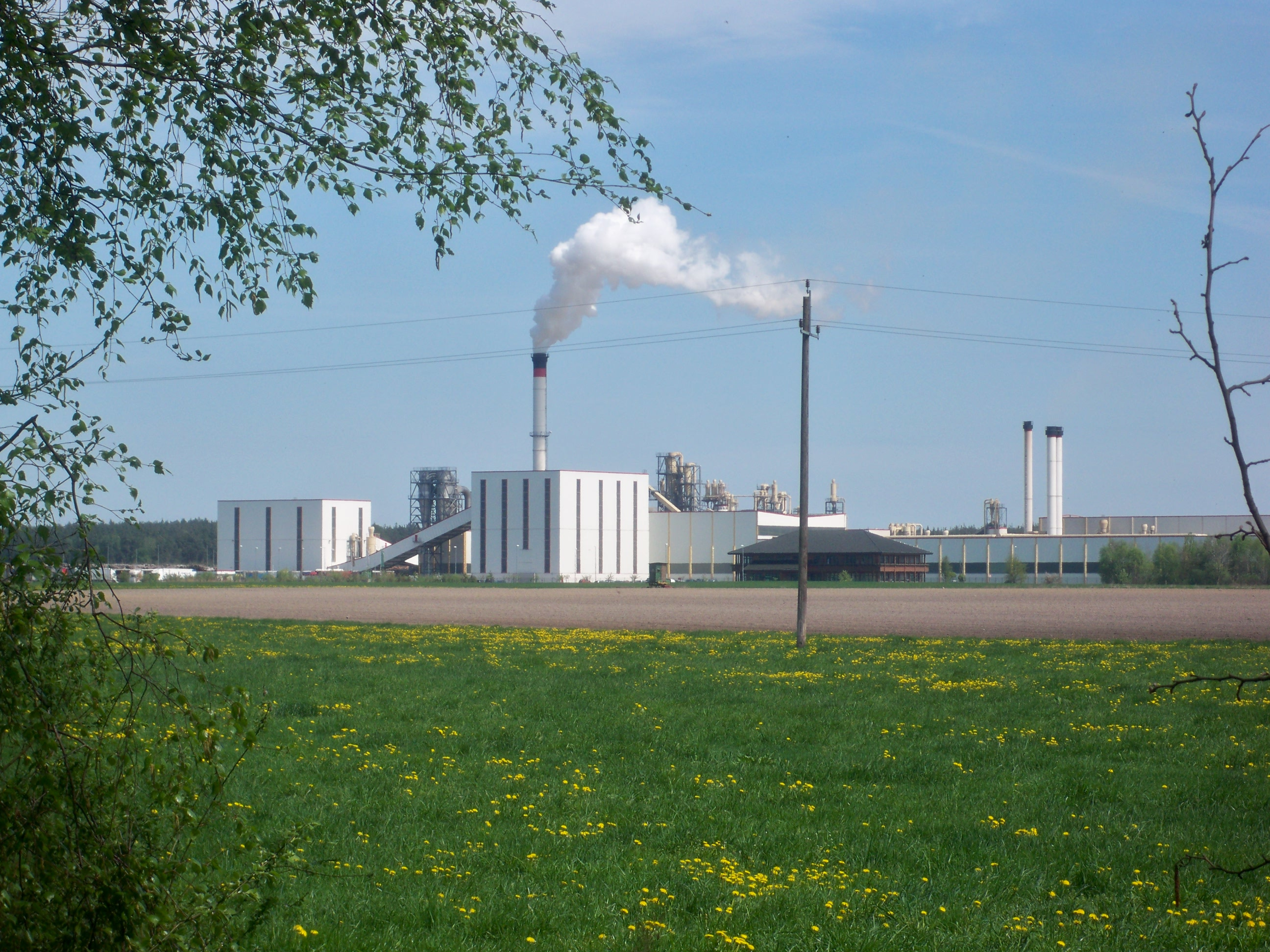 Gladdenstedt, Jübar municipality, Saxony-Anhalt, Glunz factory